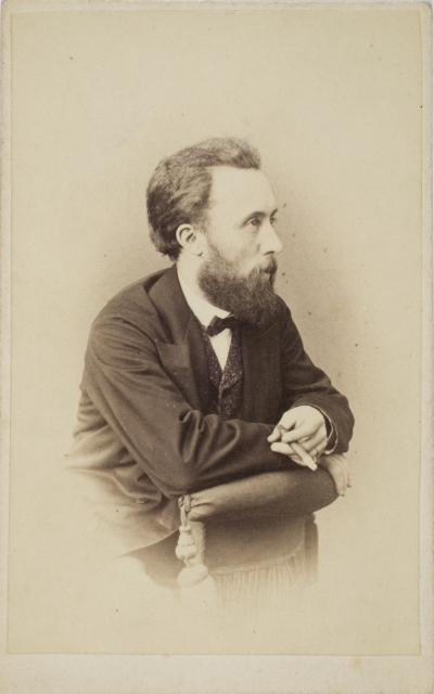 Photograph of the German-Finnish book printer and translator Ferdinand Tilgmann (1832–1911).